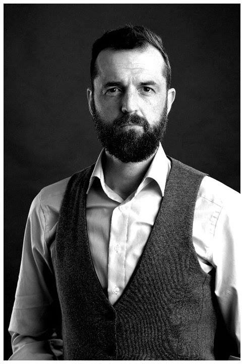 Thom Kinberger. by Photographer Stefan Rochhart.